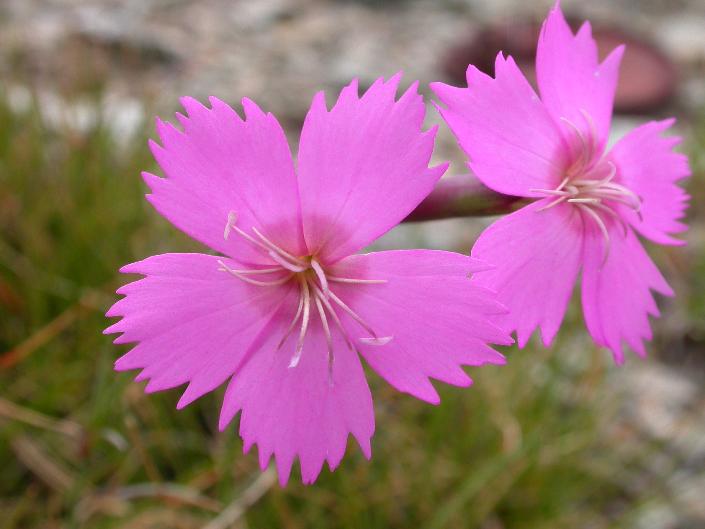 Dianthus sylvestris Zermatt, Riffelberg (Kanton Wallis, Switzerland), 2500 m Author: Barbara Studer – own photograph Date: 2.08.06